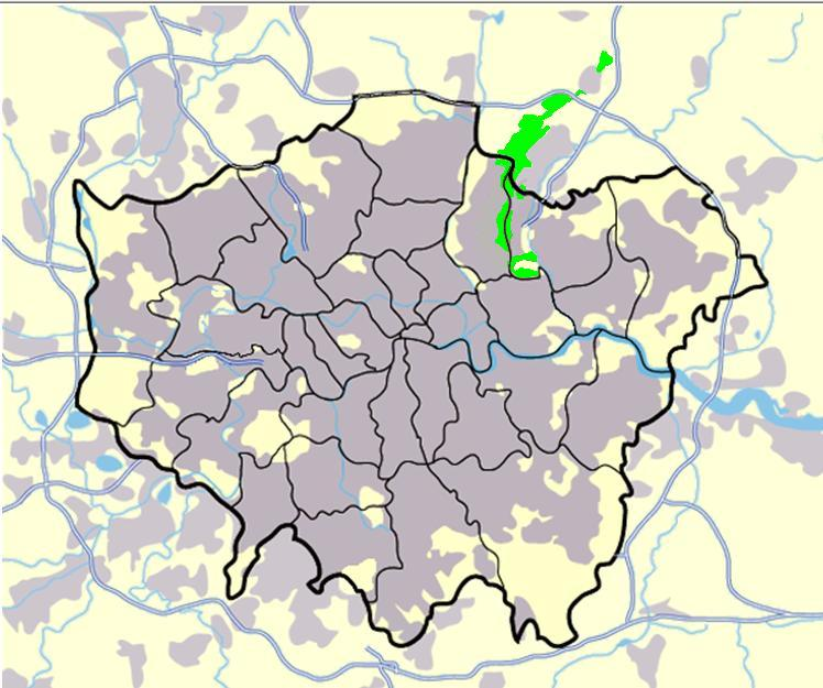 Location of Epping Forest (shown in green) - an ancient woodland in northeast Greater London and southwest Essex.